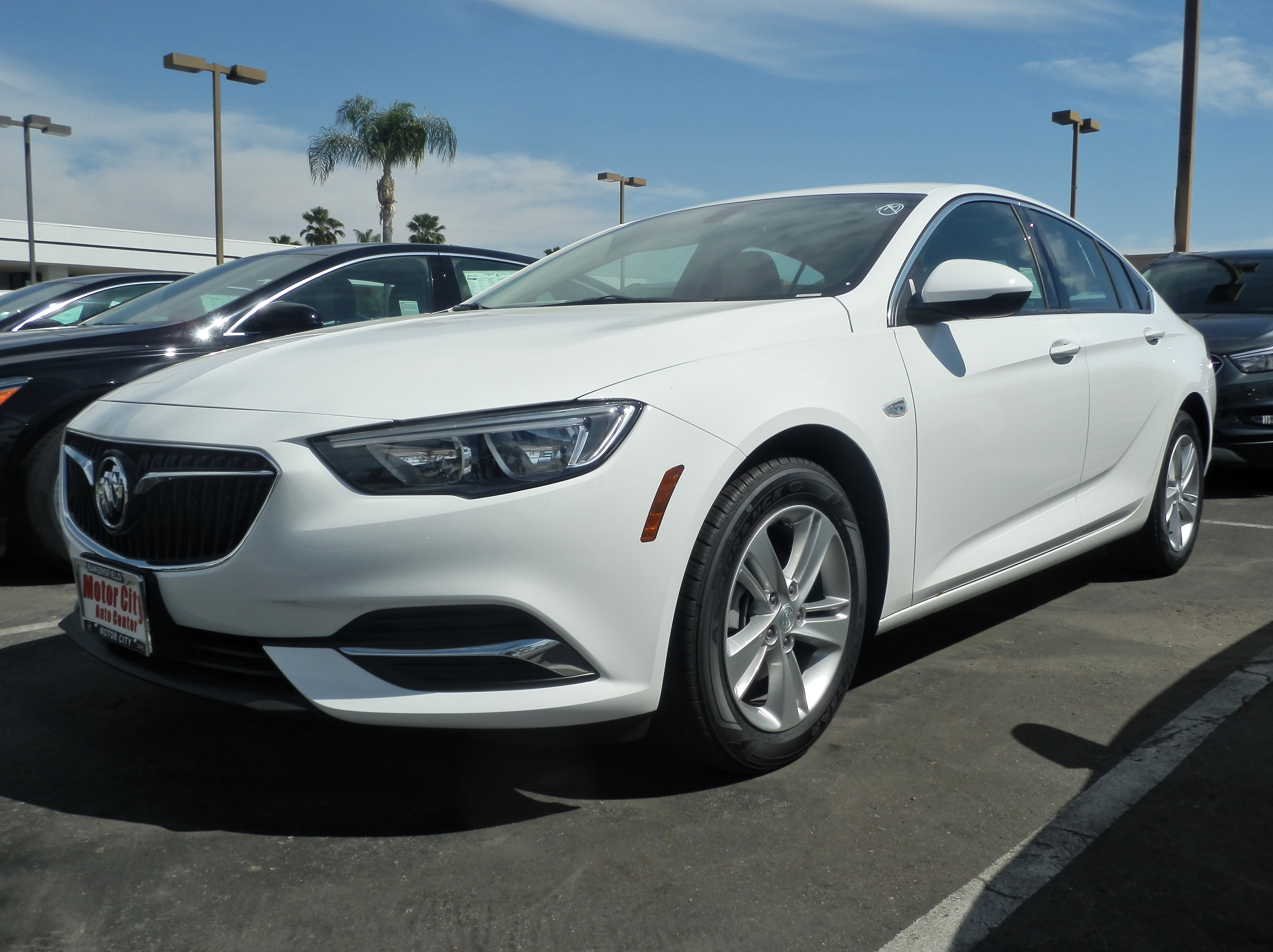 Buick Regal in Bakersfield